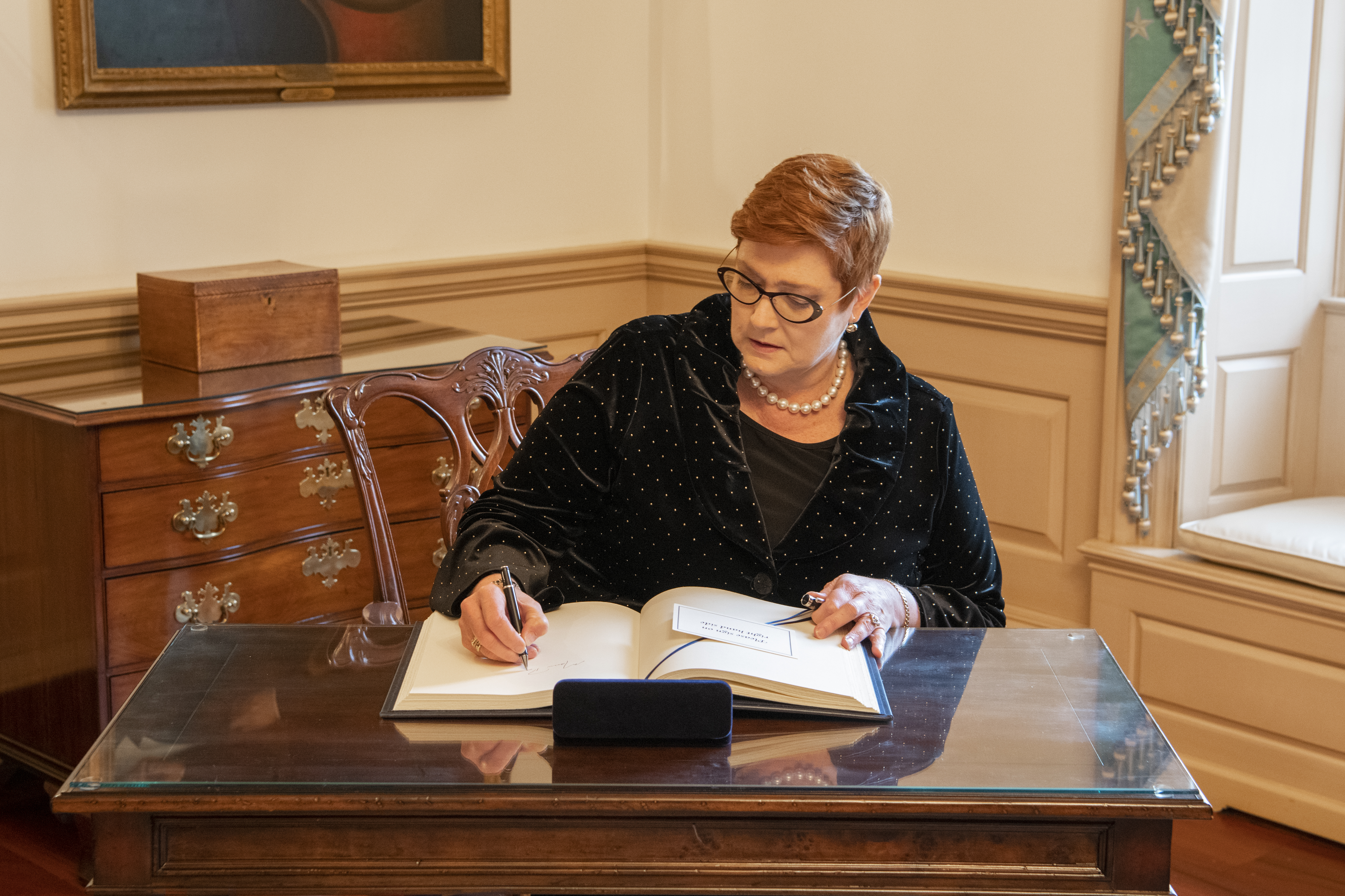 Secretary of State Michael R. Pompeo meets with Australian Foreign Minister Marise Payne, at the Department of State, on March 10, 2020. [State Department photo by Freddie Everett/ Public Domain]